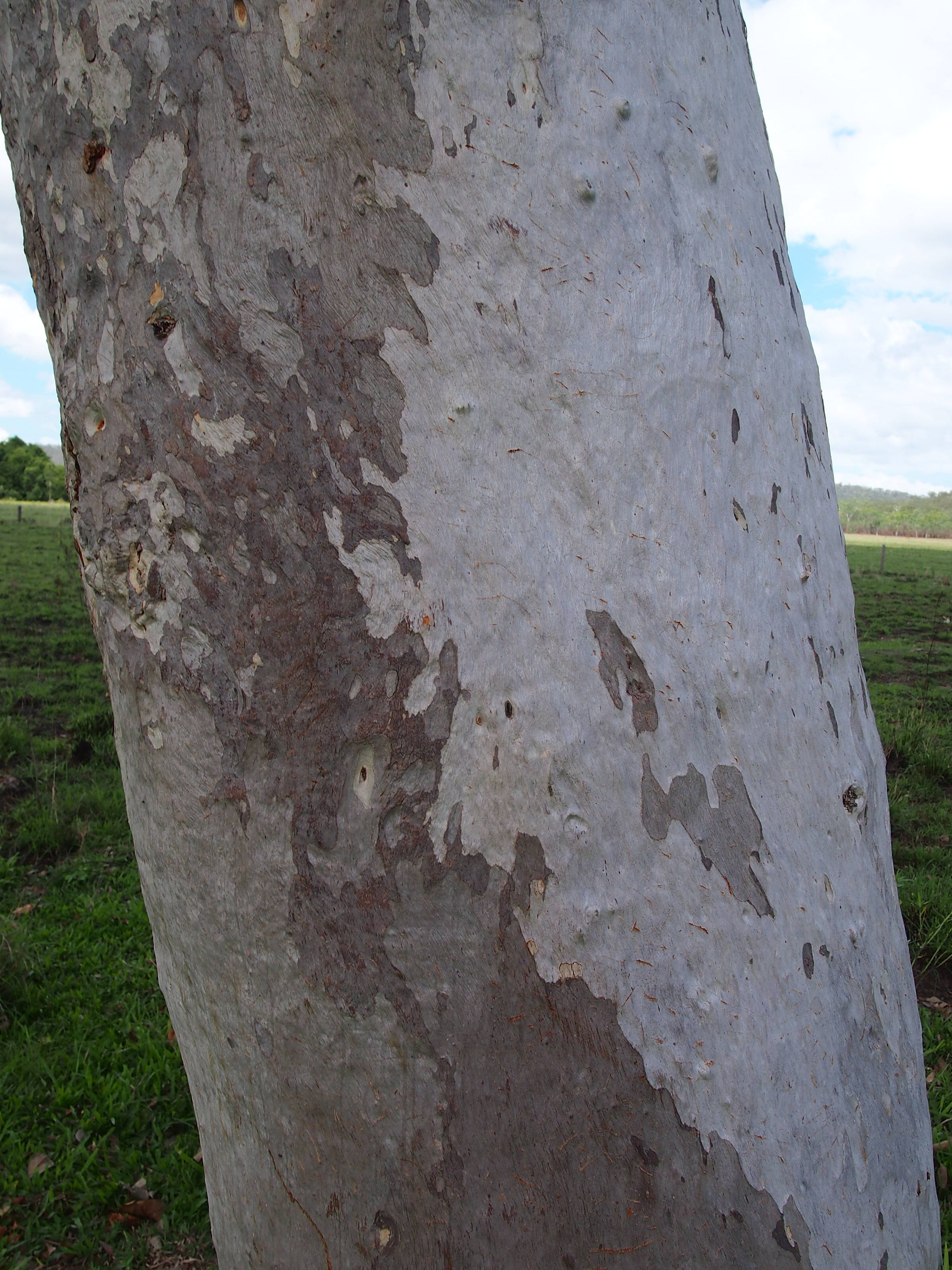 Eucalyptus platyphylla